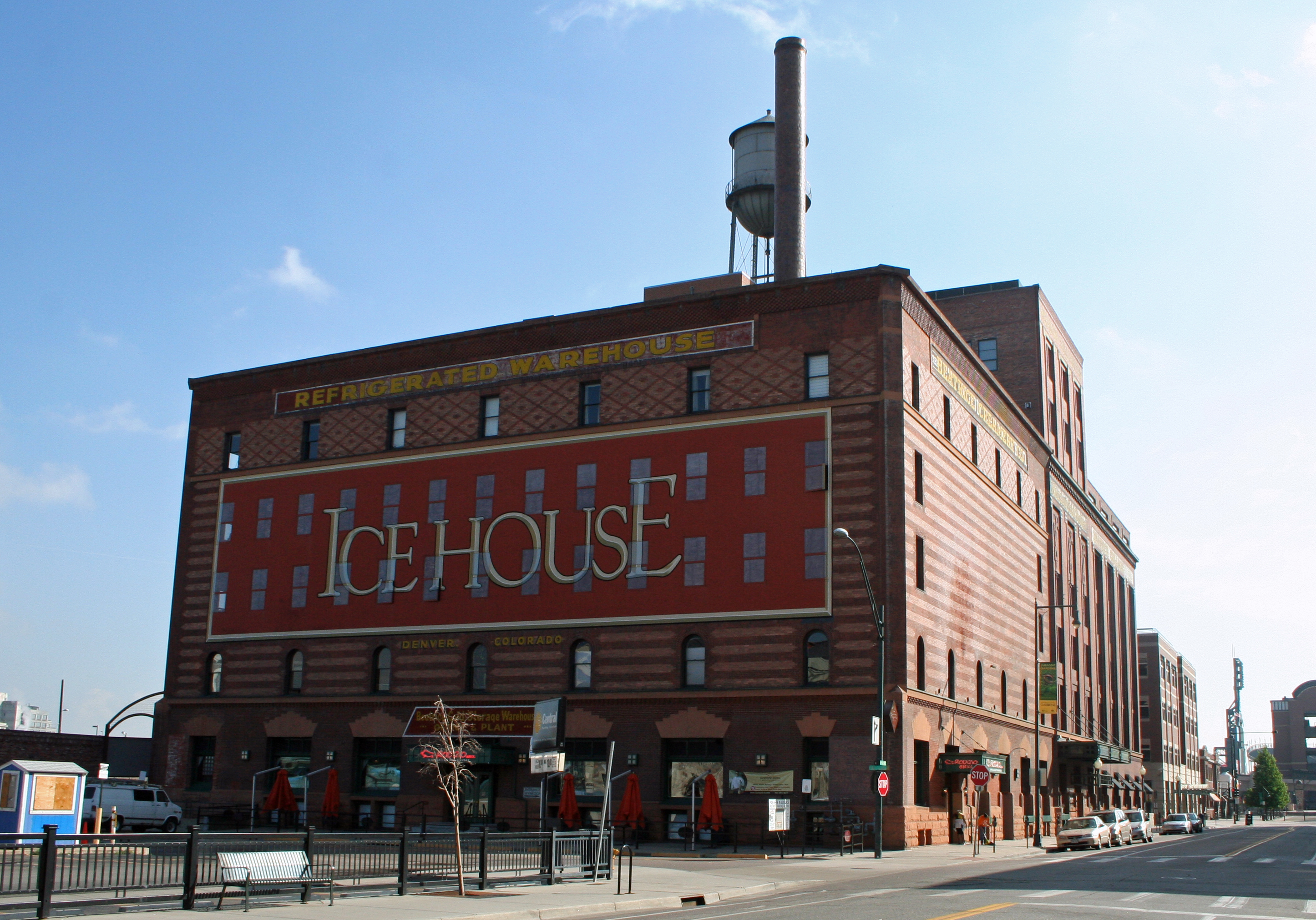 The Littleton Creamery-Beatrice Foods Cold Storage Warehouse at 1801 Wynkoop Street in Denver, Colorado.